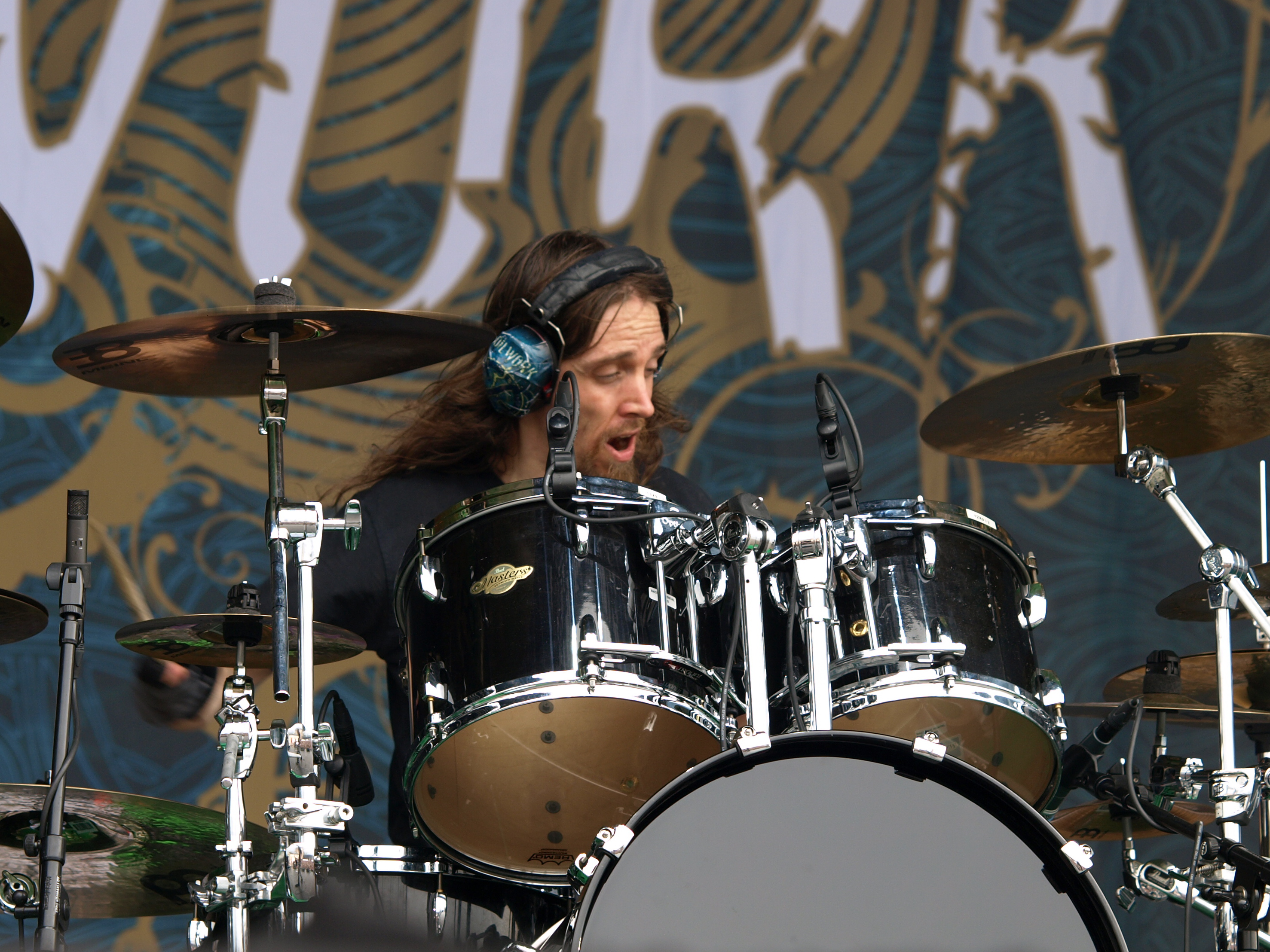 Swedish metal band Soilwork live at Tuska Open Air 2013